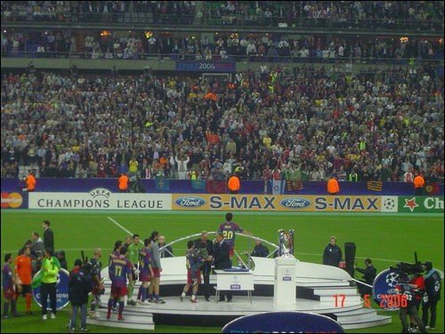 Champions League 2005/06 FC Barcelona Medals Ceremony. Stade de France, Paris, May 17, 2006